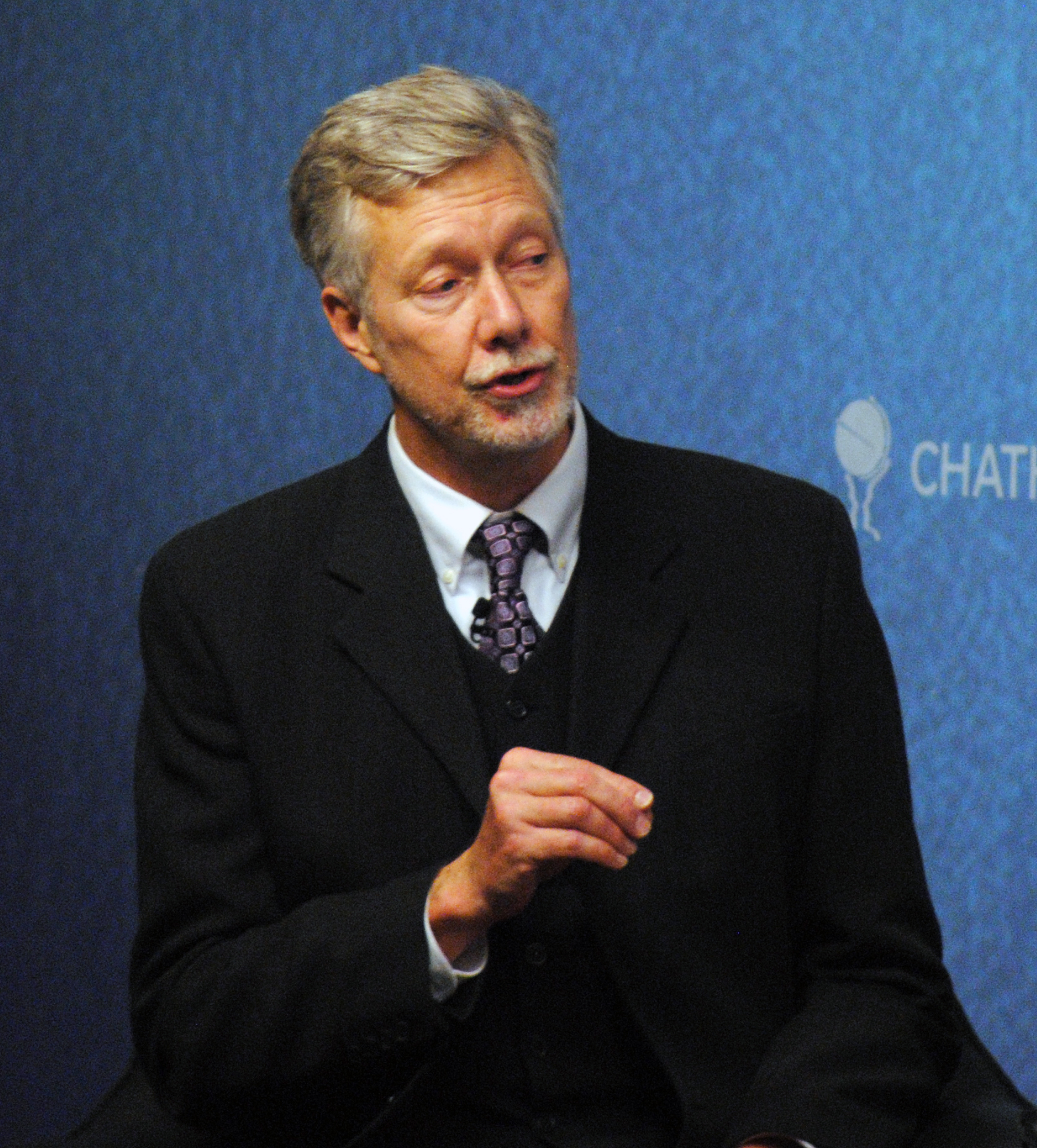 Ending Modern Slavery, 17 October 2013 cht.hm/15L02iY